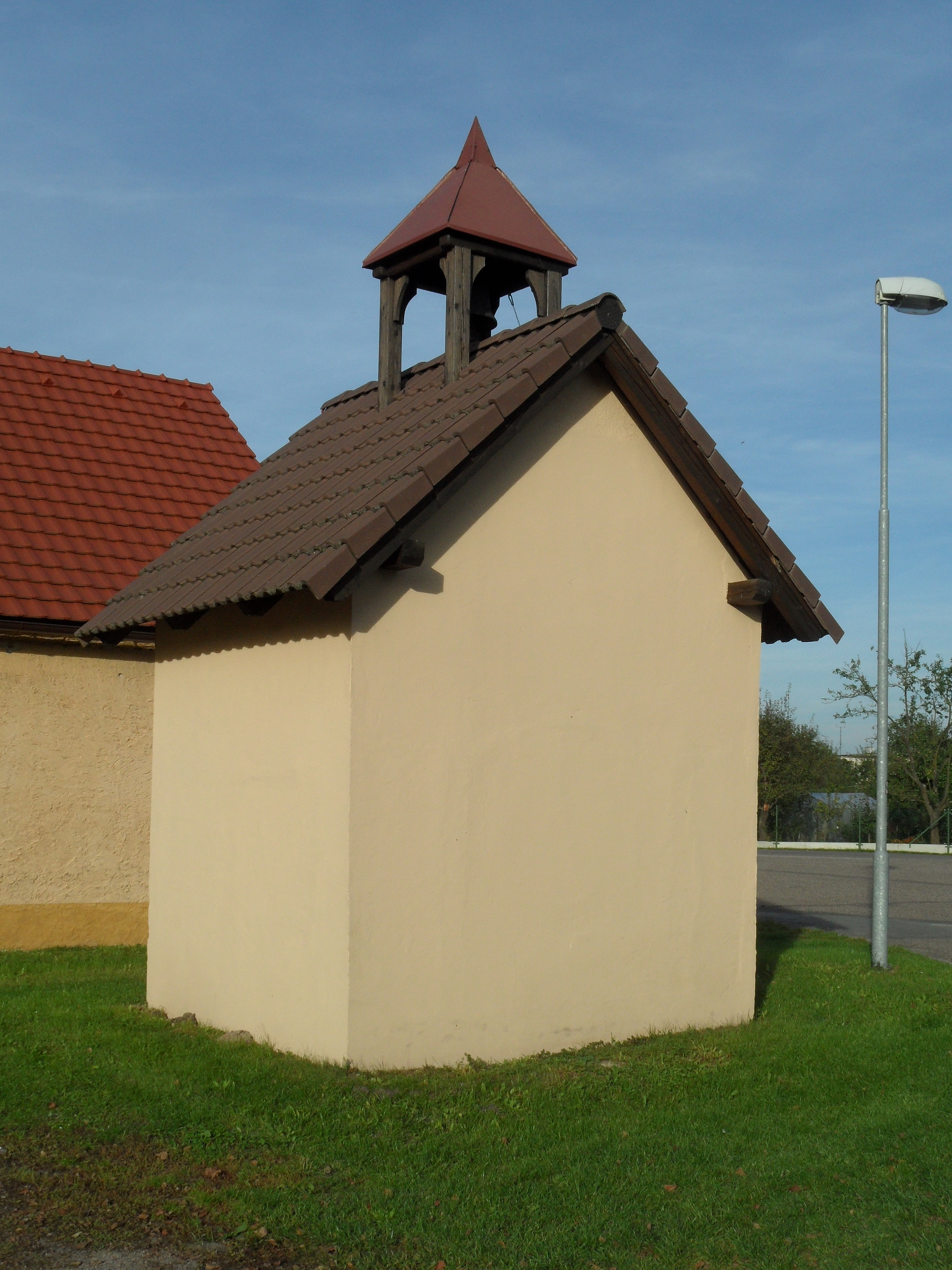 Hlavečník G. Chapel near Crossroads, Pardubice, the Czech Republic.